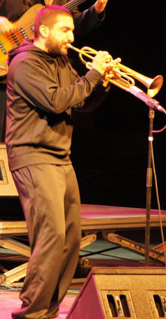 Ibrahim Maalouf trumpeter